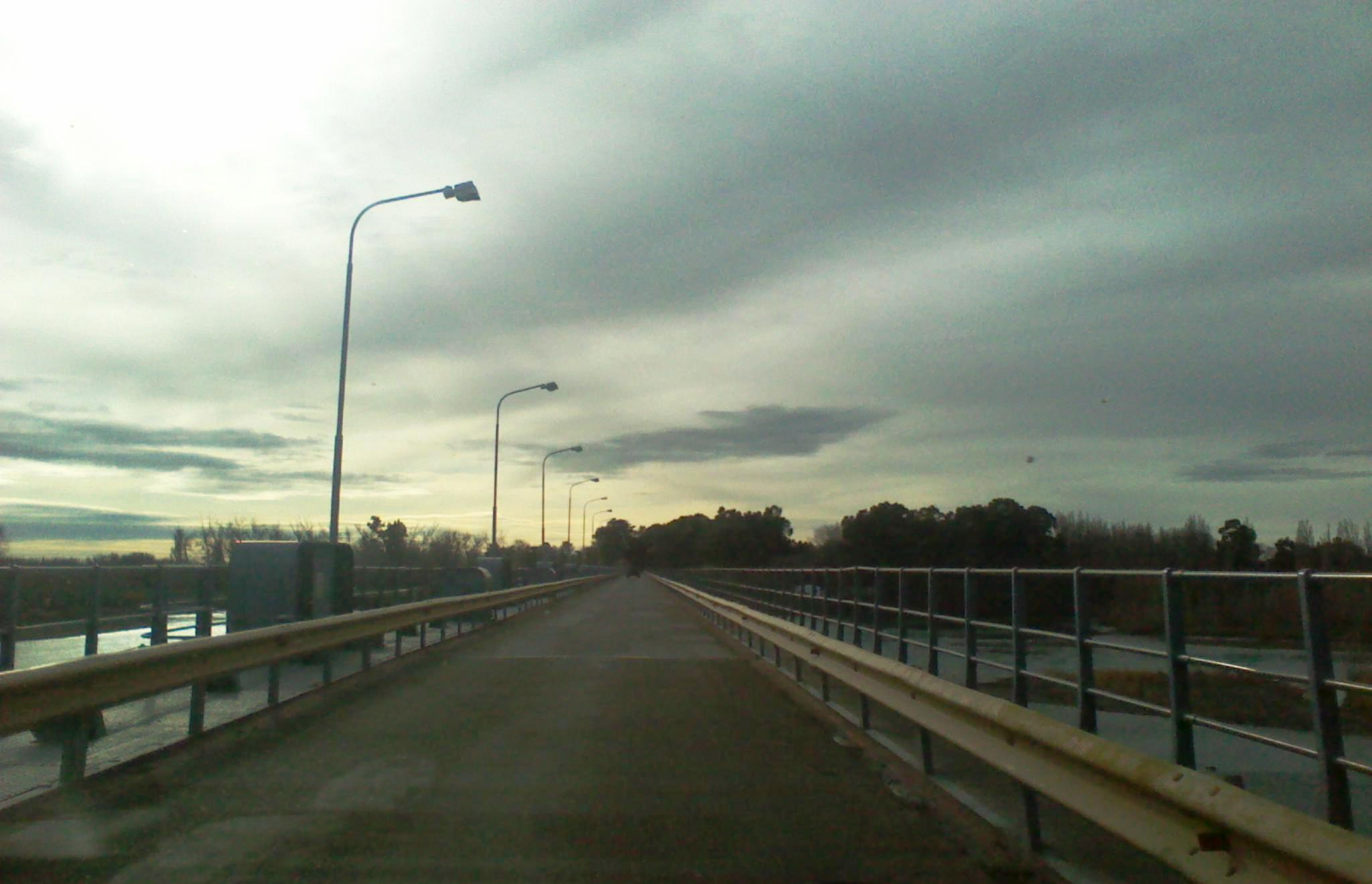 Ingeniero Ballester dam in Neuquén river.